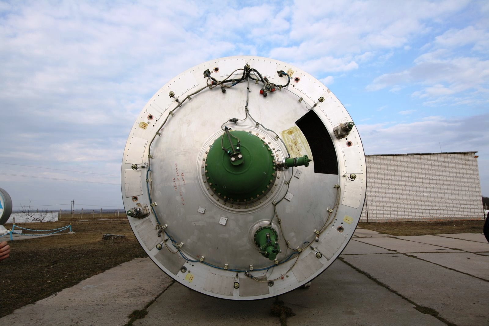 Intercontinental ballistic missile SS-18 Mod 5 (NATO reporting name: Satan), (GRAU designations is 15А18М - R-36M2 «Voivode»).